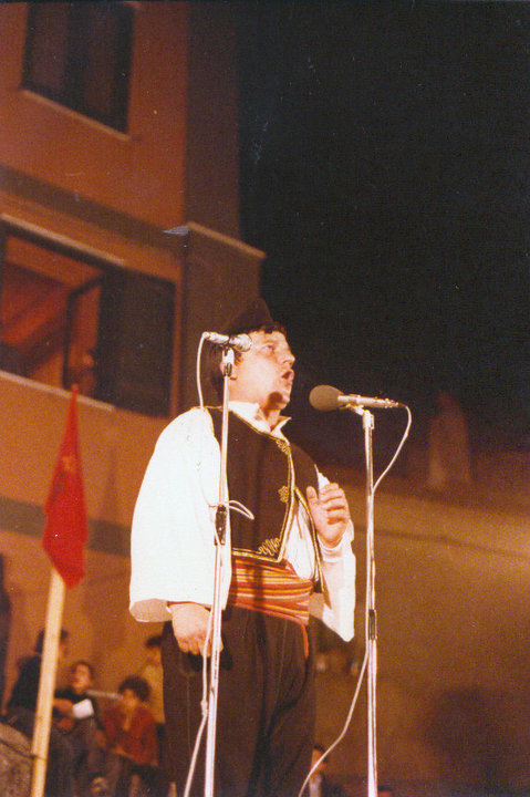 Participation in May's concerts